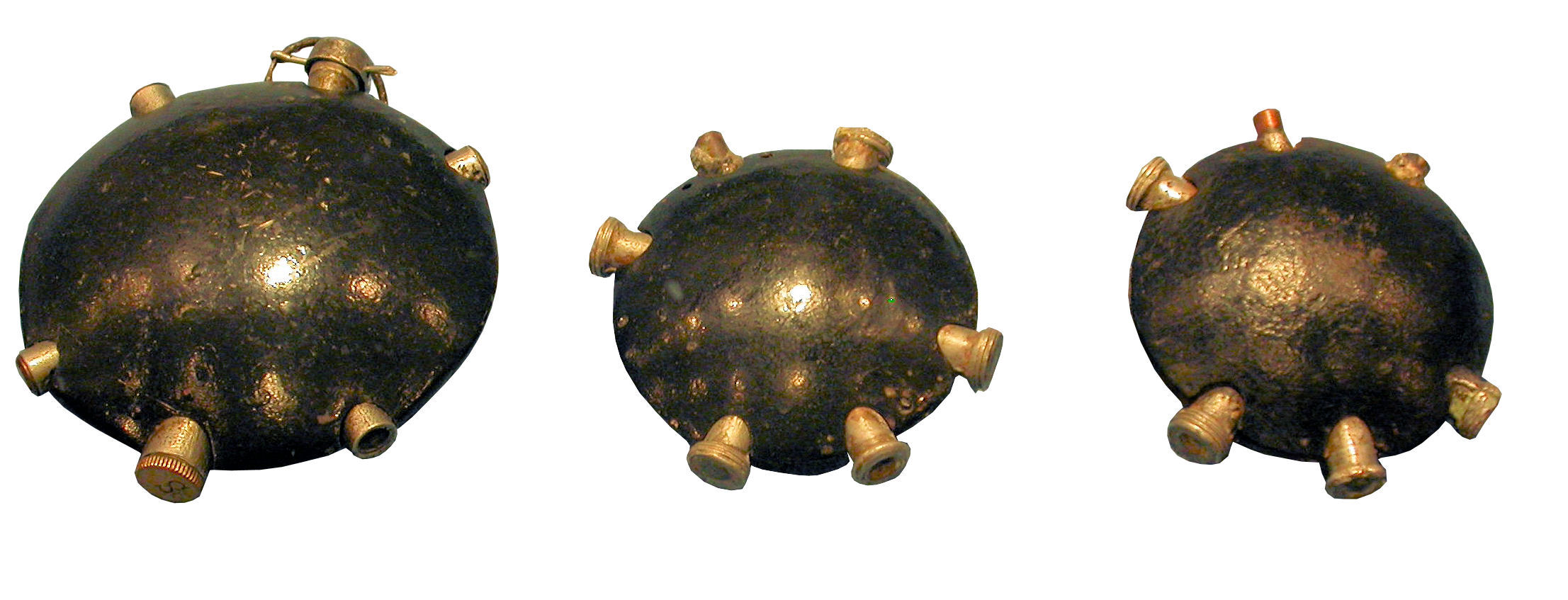 Disc grenade "Turtle" 1914 (in coll. Mémorial de Verdun)